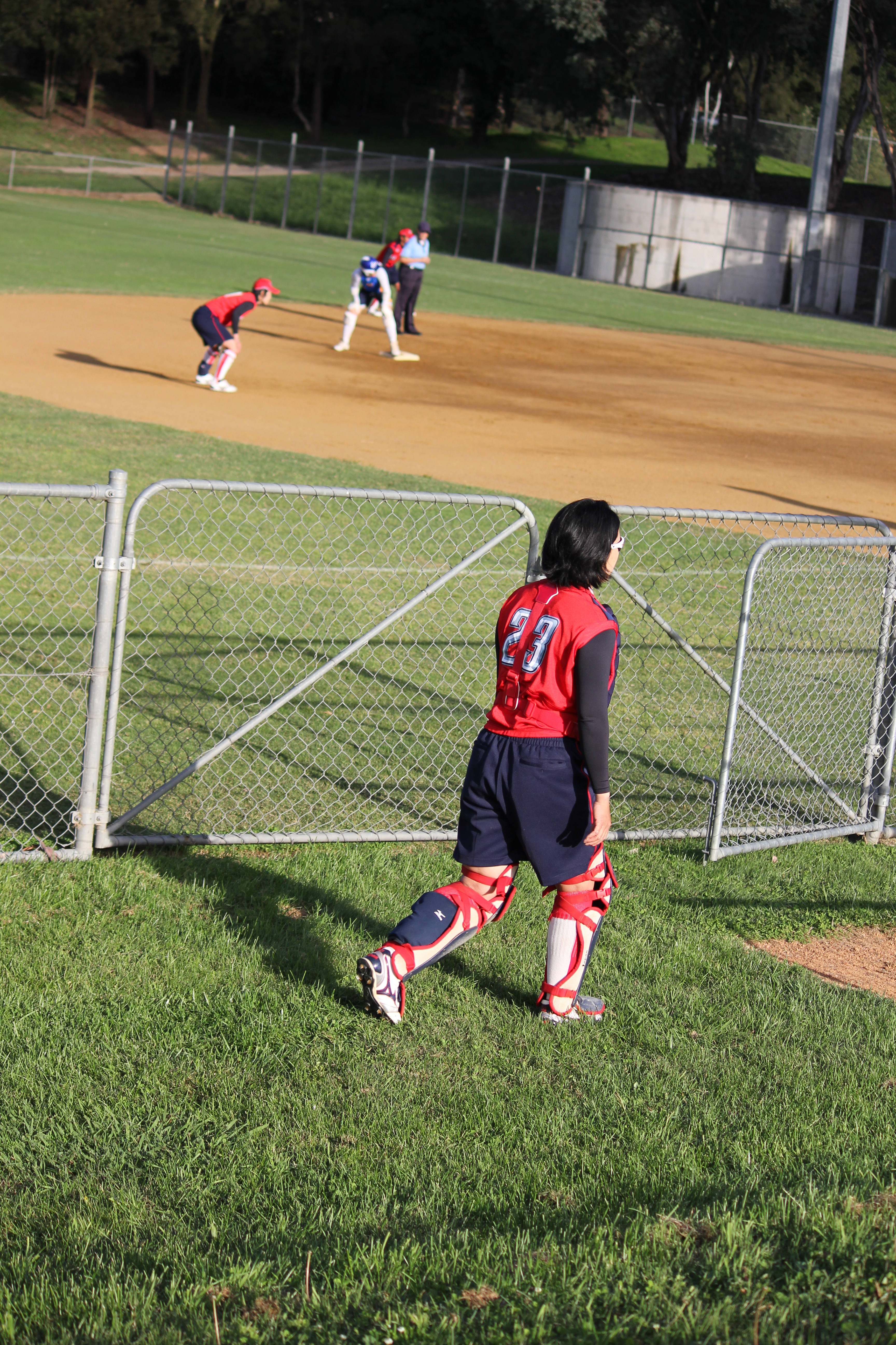 The 19 March 2012 game at Hawker International Softball Centre between the ACT representative side and the Japanese national team. No 27 for Japan is Mika Someya.